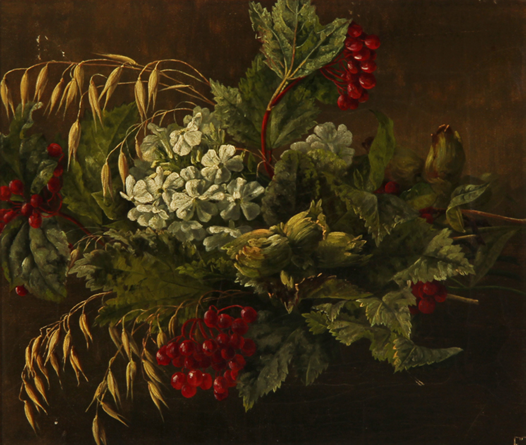 Painting of a bouquet with flowers, berries and straw by the Danish artist Eleonora Tscherning, 24 x 29 cm, oils on canvas